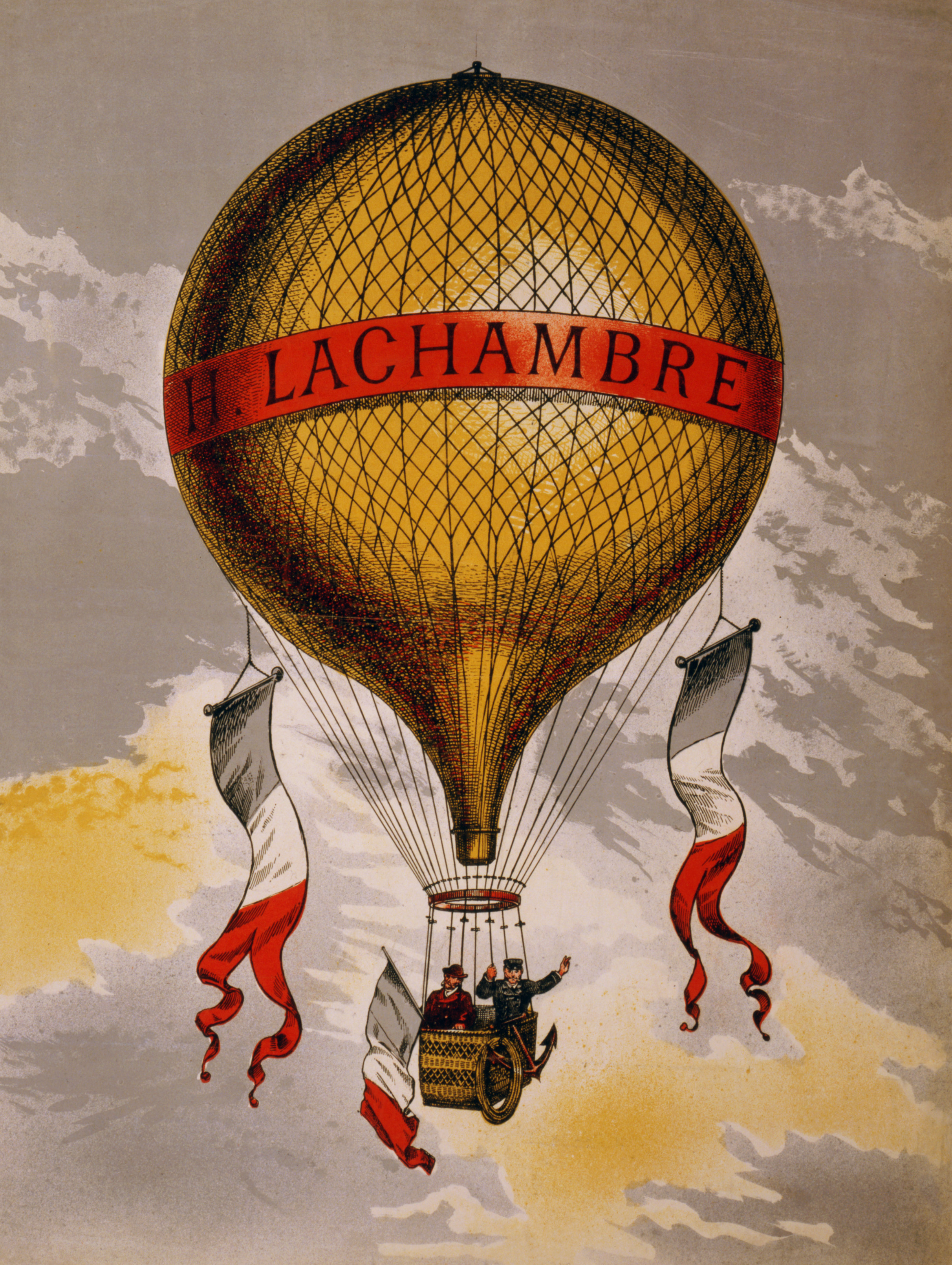 Balloon labeled "H. Lachambre," with two men riding in the basket. Poster possibly advertising a balloon manufactured by Henri Lachambre whose facility is located in Vaugirard, a section of Paris, France. 1 print (poster) : lithograph, color.